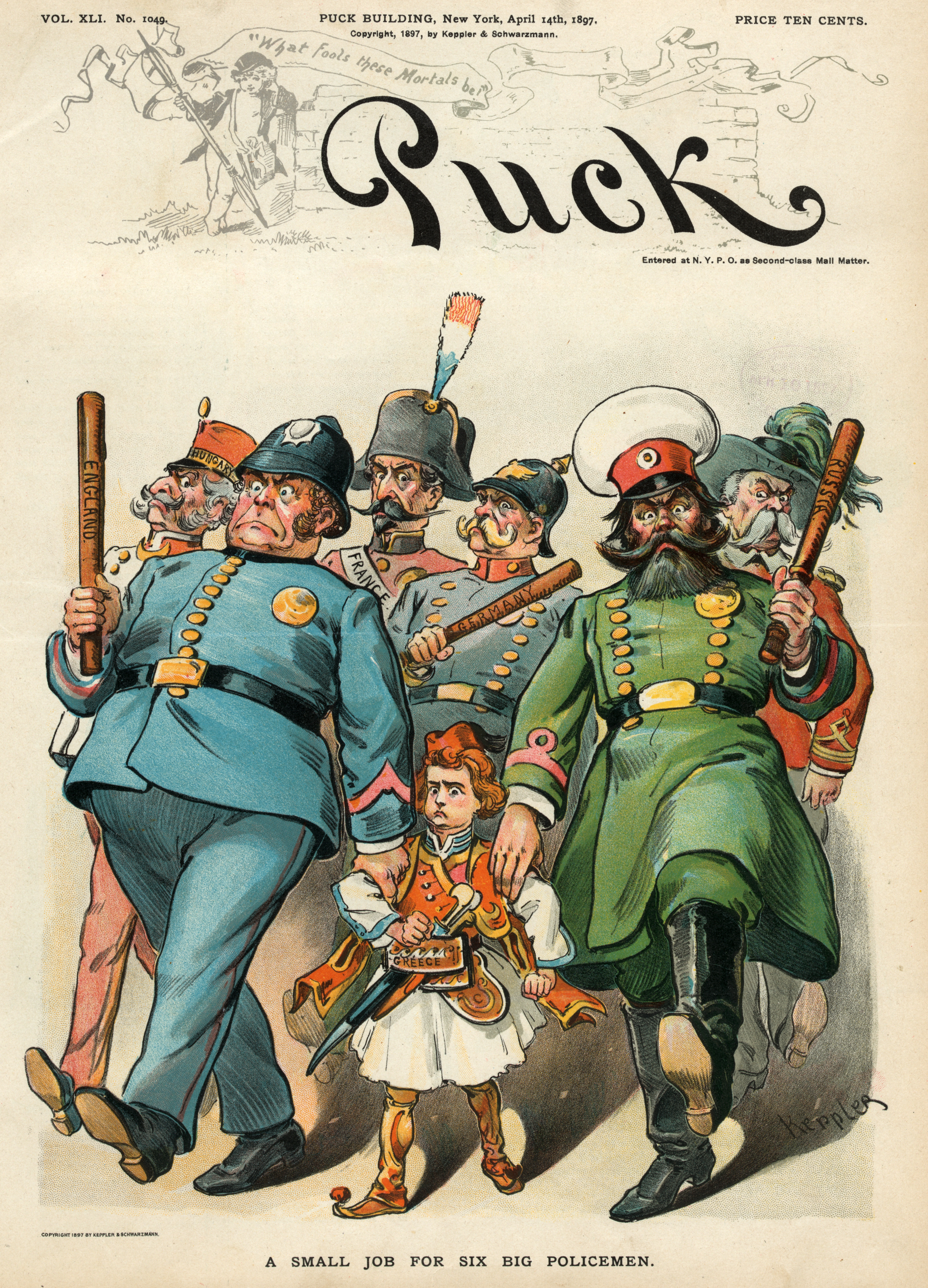 "A small job for six big policemen": little Greece under the "protection" by the six Great Powers of Europe (England, Austria, France, Germany, Russia and Italy)